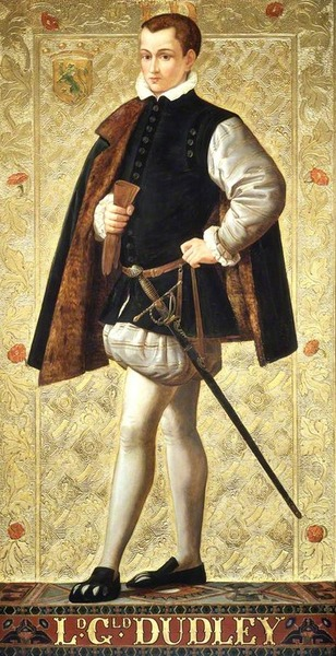 Lord Guildford Dudley, husband of Lady Jane Grey. Painted in the 19th century as part of a series. Compare File:Lady Frances Brandon.jpg.